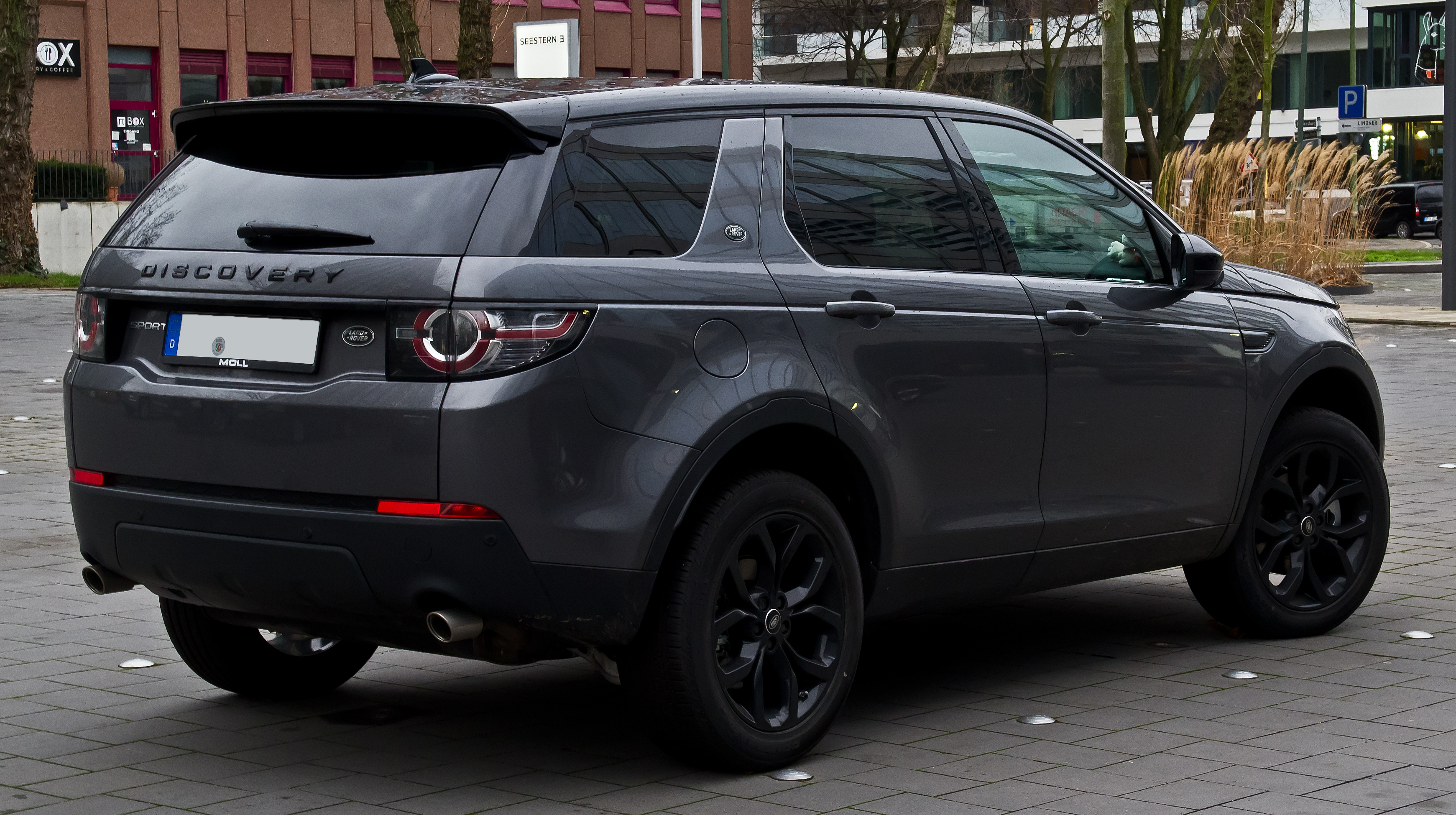 Land Rover Discovery Sport TD4 HSE Black-Paket